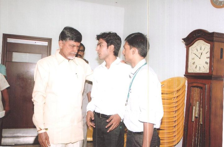 Mr.Chandra Babu Naidu in a discussion with young students during his stint as Chief Minister of Andhra Pradesh.